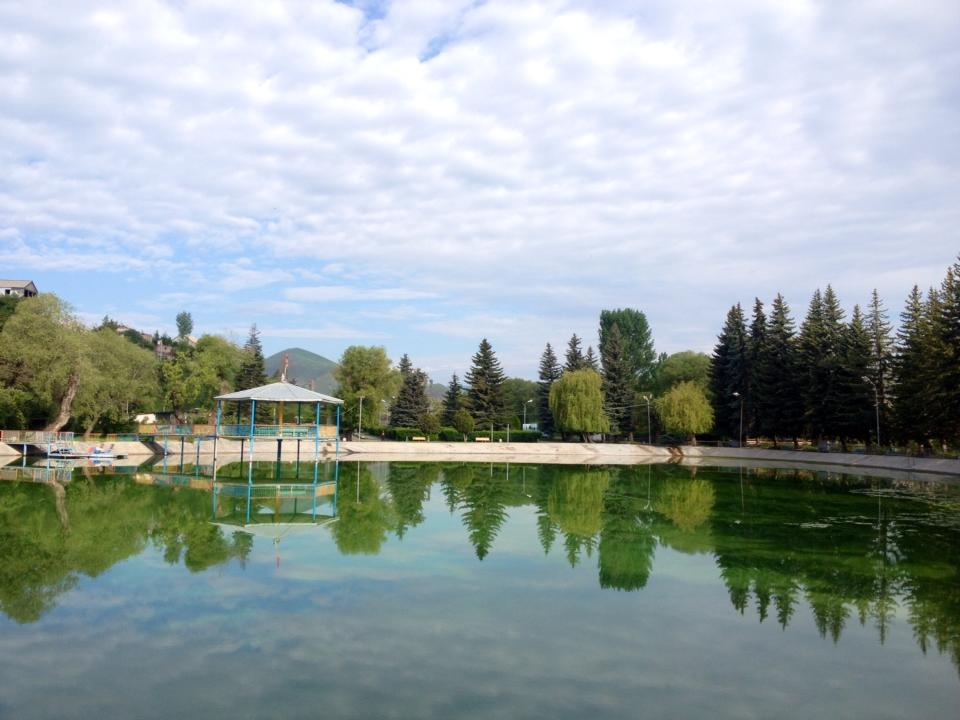 Vanadzor, Armenia.